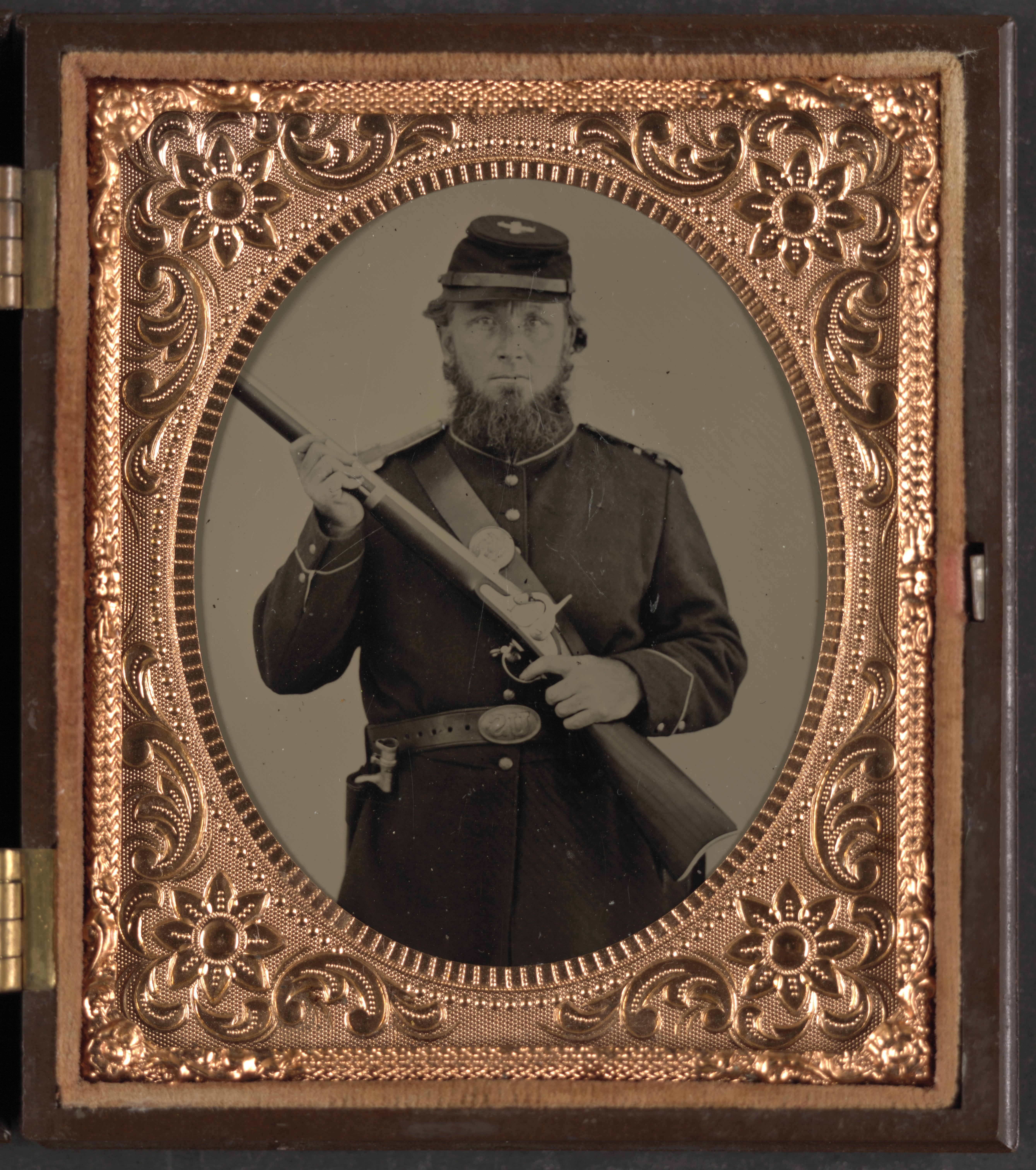 Title: Unidentified soldier in Union uniform and 6th corps forage cap with Model 1855 Springfield rifle and bayonet] / Ferrotypes made by William Dunniway & Co., traveling artist Abstract/medium: 1 photograph : tintype ; plate 81 x 69 mm (sixth plate format), case 95 x 83 mm.